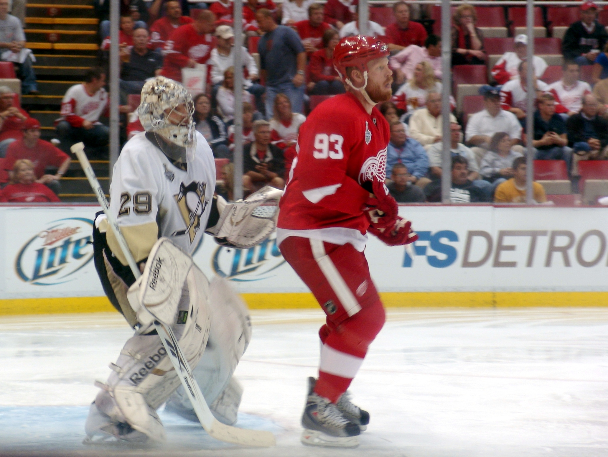 Detroit Red Wings forward Johan Franzén sets up in front of Pittsburgh Penguins netminder Marc-Andre Fleury in Game 5 of the 2009 Stanley Cup Finals at Joe Louis Arena in Detroit, MI. June 6, 2009.